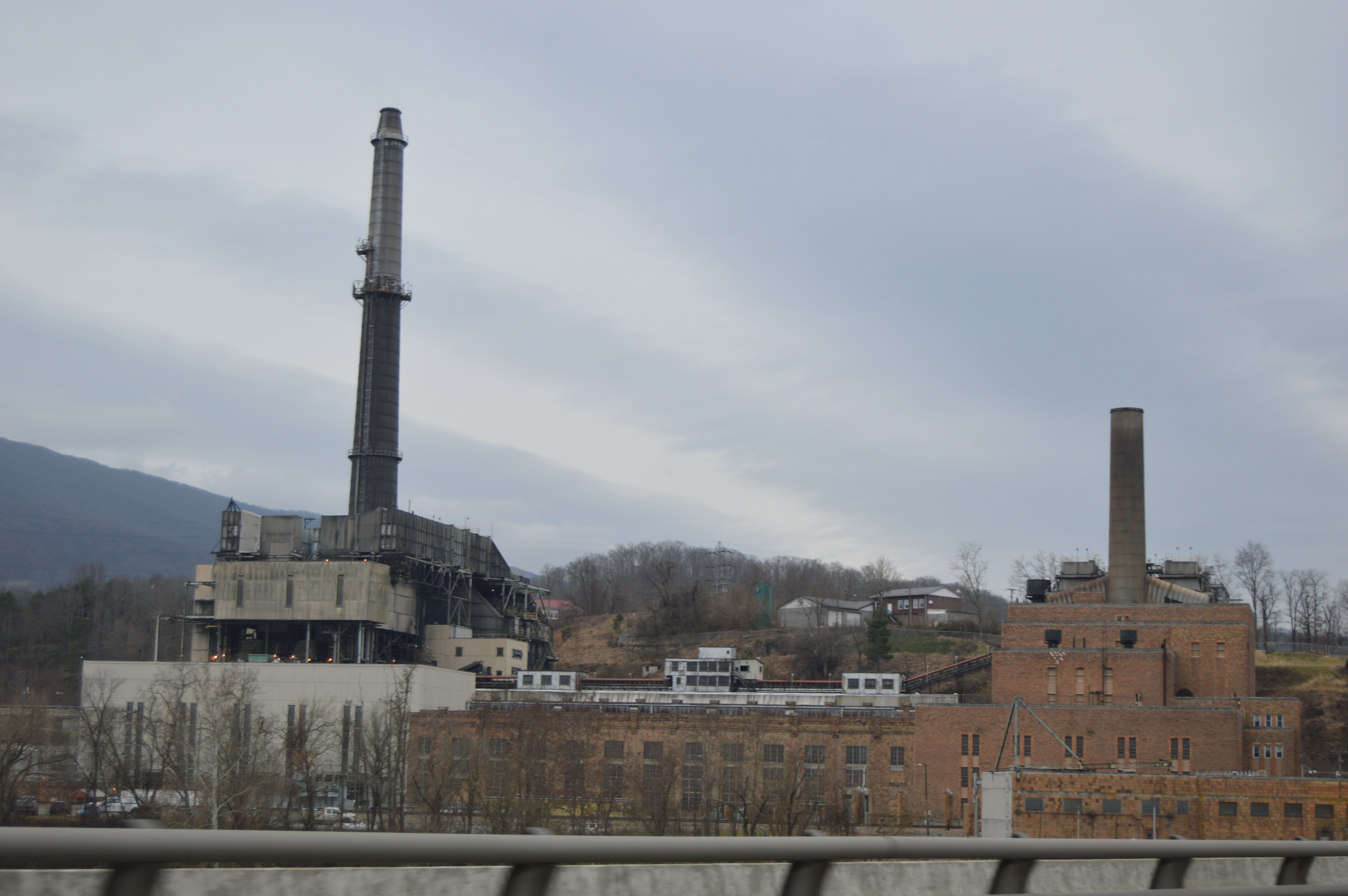 Overview of the Glen Lyn Plant, a former Appalachian Power coal-fired power plant in Glen Lyn, Virginia, United States. Photo looks south from the U.S. Route 460 bridge over the New River.